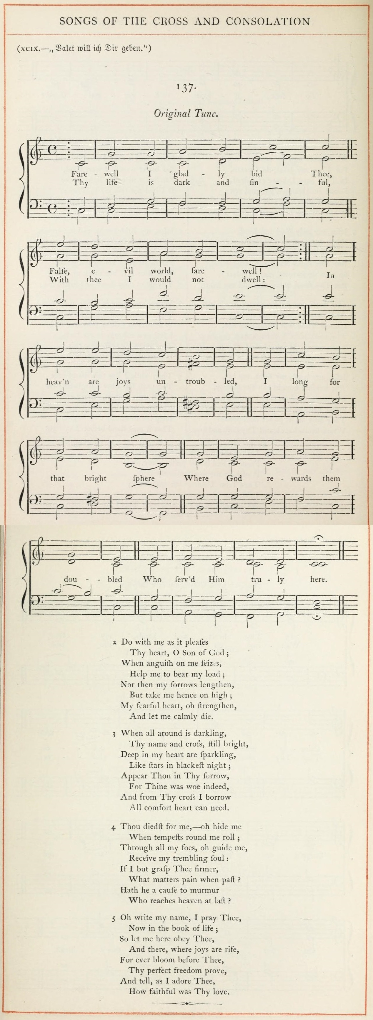 Farewell I gladly bid Thee, English version of Valet will ich dir geben by Catherine Winkworth